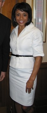 Gymnast Dominique Dawes